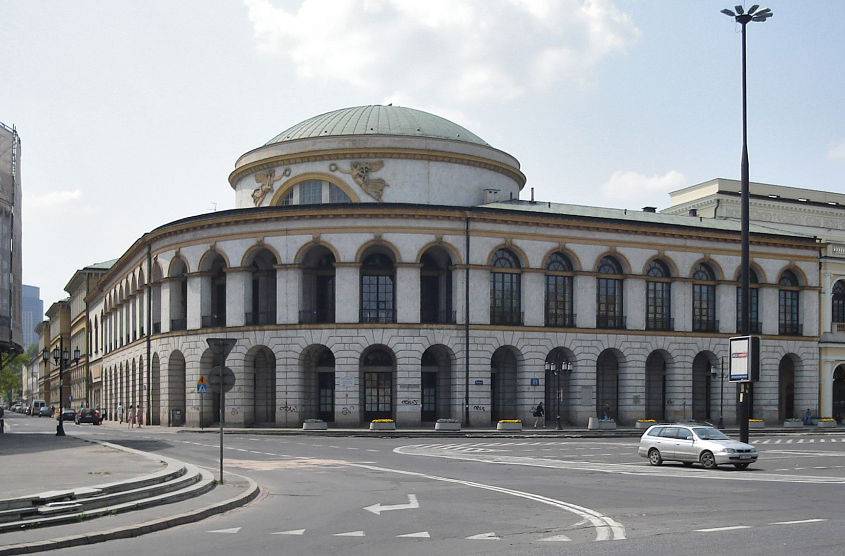 Polish Bank and Stock Market, Bank Square 1/3, Warsaw, Poland